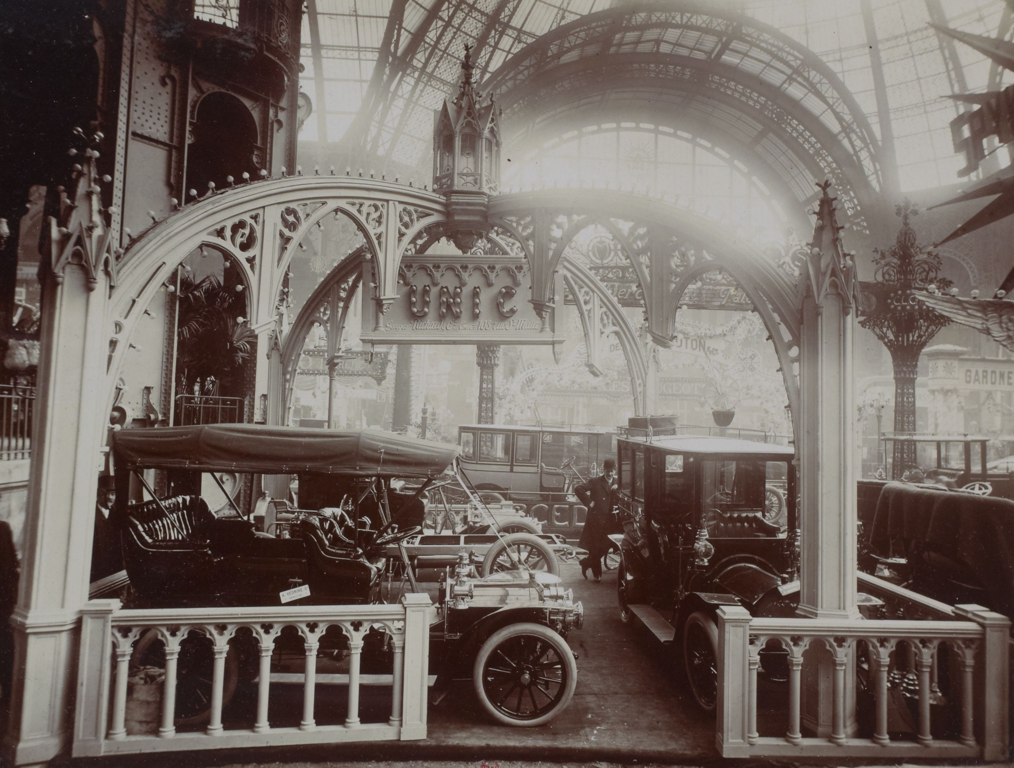 [Collection Jules Beau. Photographie sportive] : T. 31. Années 1905 et 1906 / Jules Beau : F. 18. [8e Salon de l'automobile, du cycle et des sports, 8 décembre 1905]